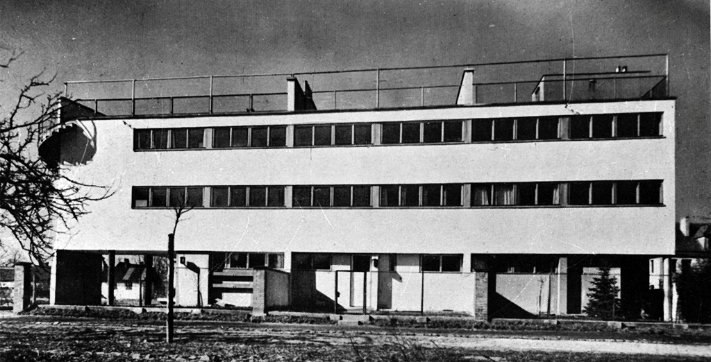 Bohdan Lachert villa in Warsaw, Poland dated 1929. Katowicka Street 9. Three-family house with garden, each flat measures 150m2 and has three levels plus roof terrace. See also: [1]